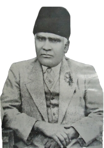 Renown scholar of Arabic, Persian & Urdu literature Prof. Hafiz Mahmood Shirani